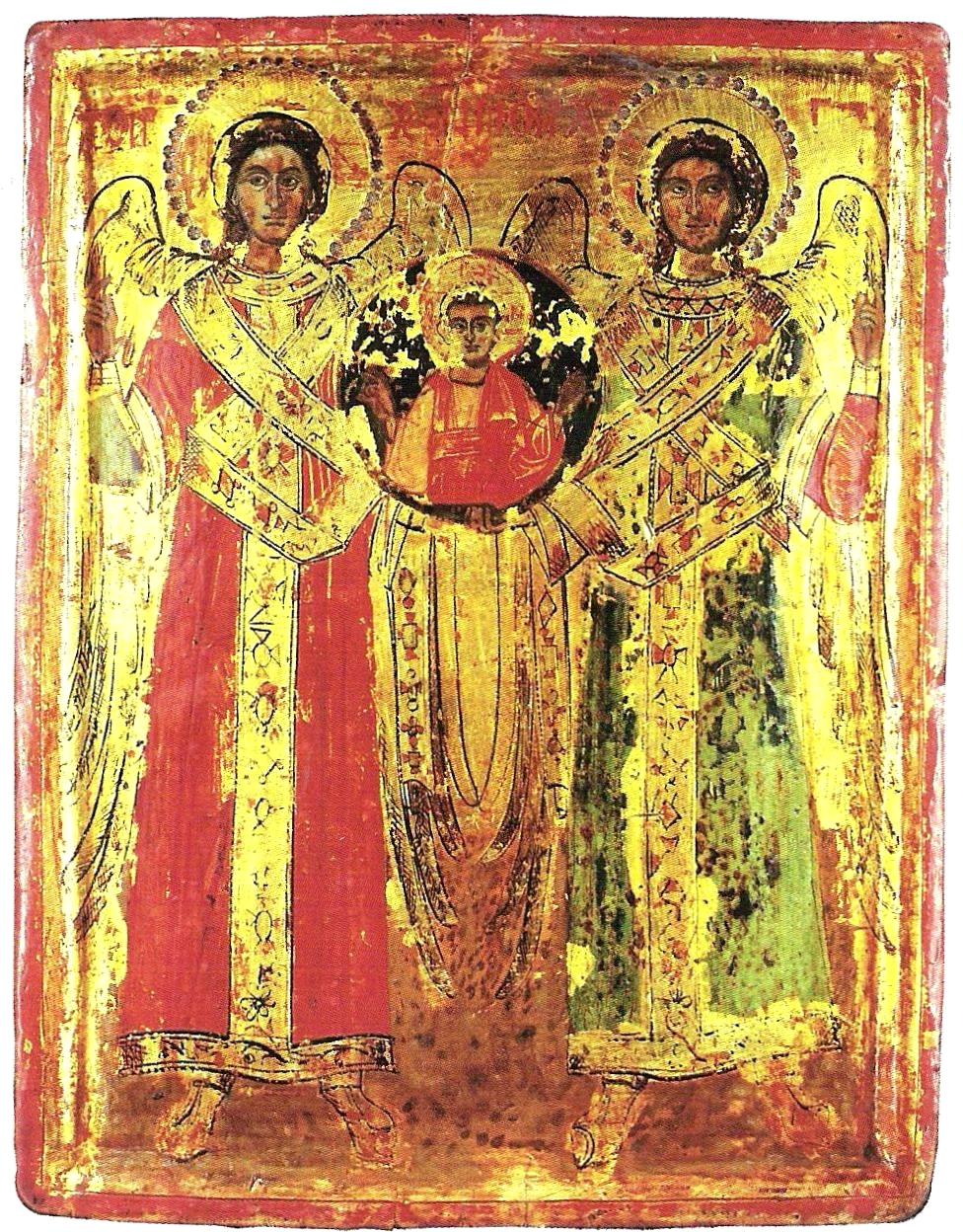 Archangels Michael and Gabriel - 18th Century Icon from Skopje Region